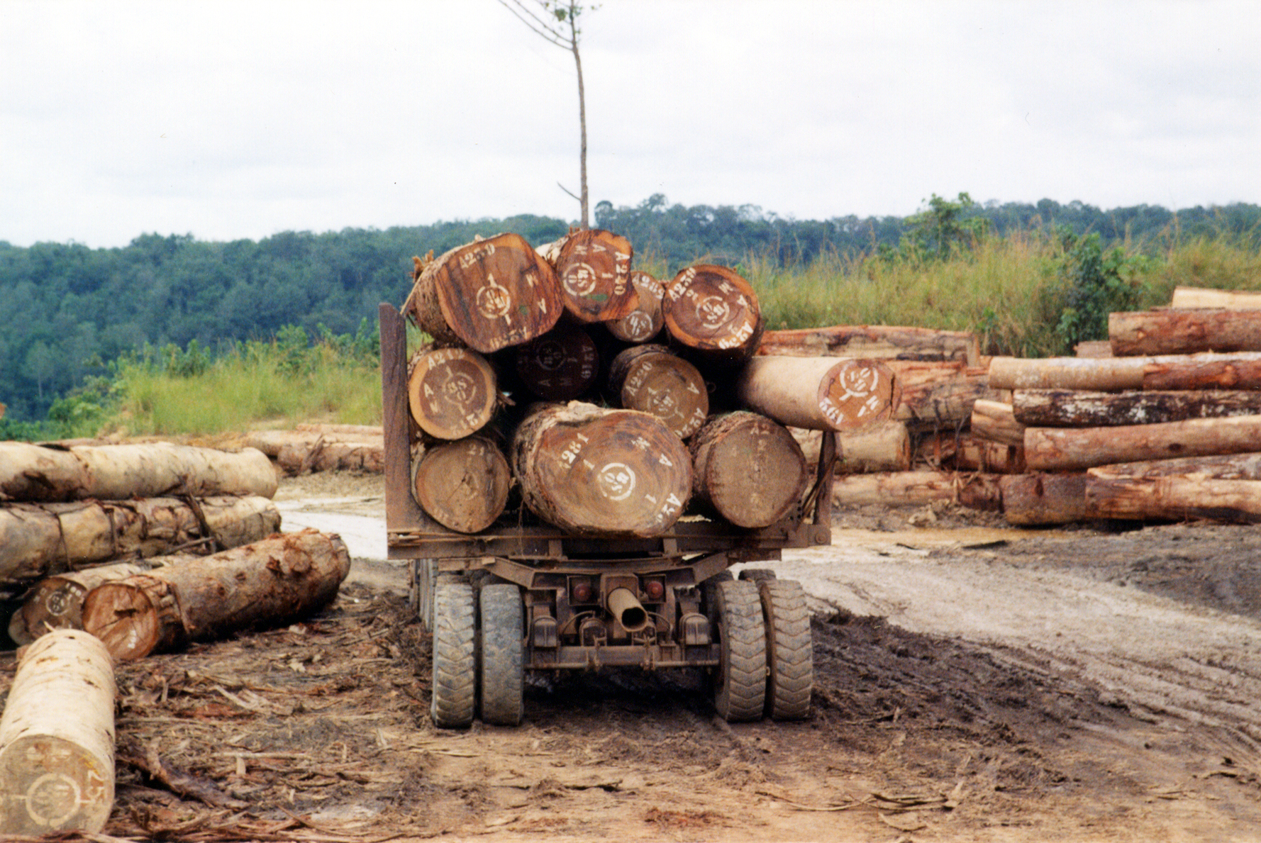 Photo by JG Collomb, World Resources Institute, 2001. WRI's Global Forest Watch team in the field in central Africa, 2001.